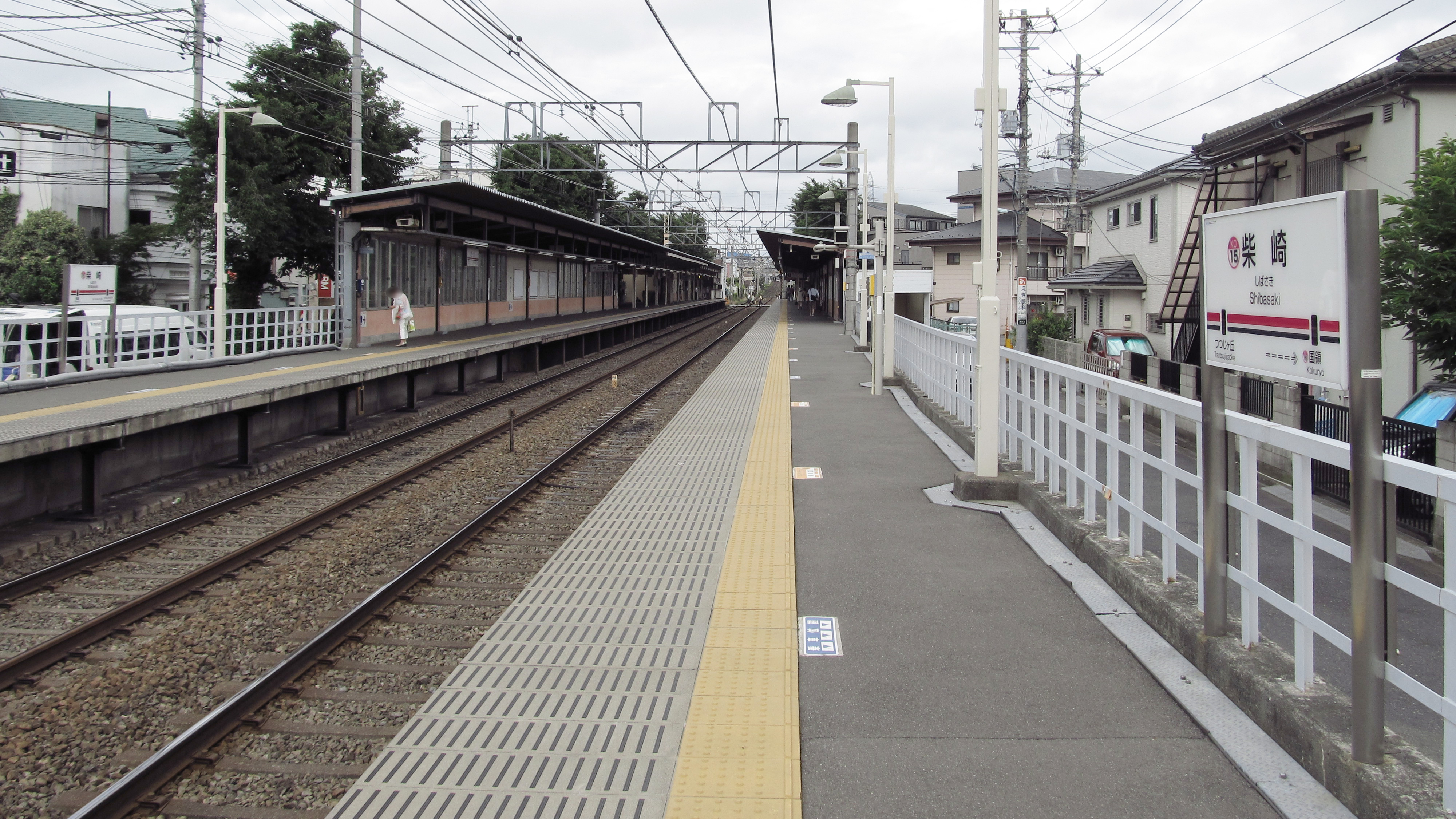 The platforms at Shibasaki Station on the Keiō Line in Chofu, Tokyo, Japan